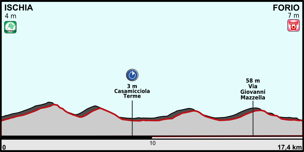 Giro d'Italia 2013 - stage profile # 02